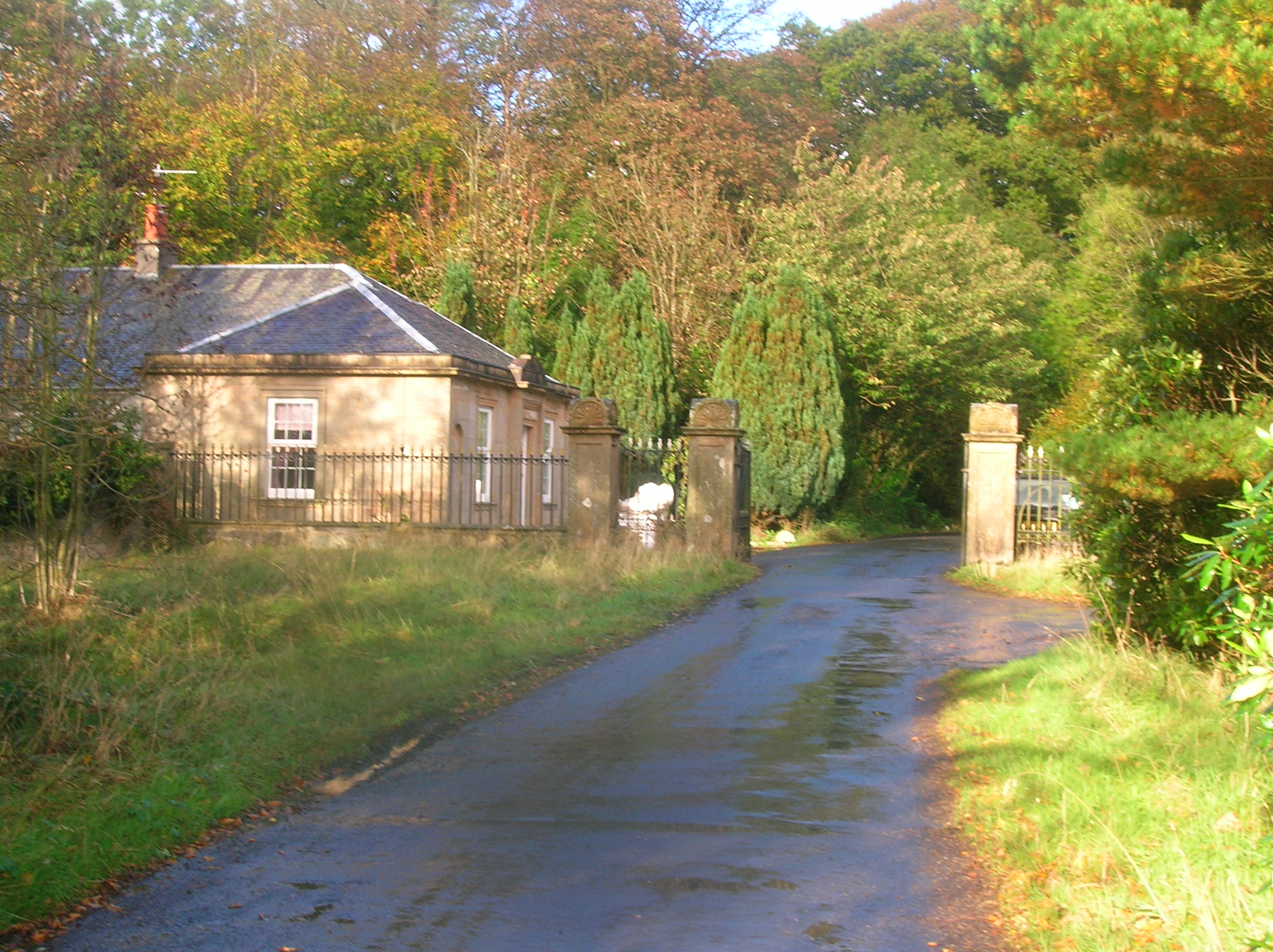 The West lodge at Montgreenan, near Auchentiber, North Ayrshire, Scotland.